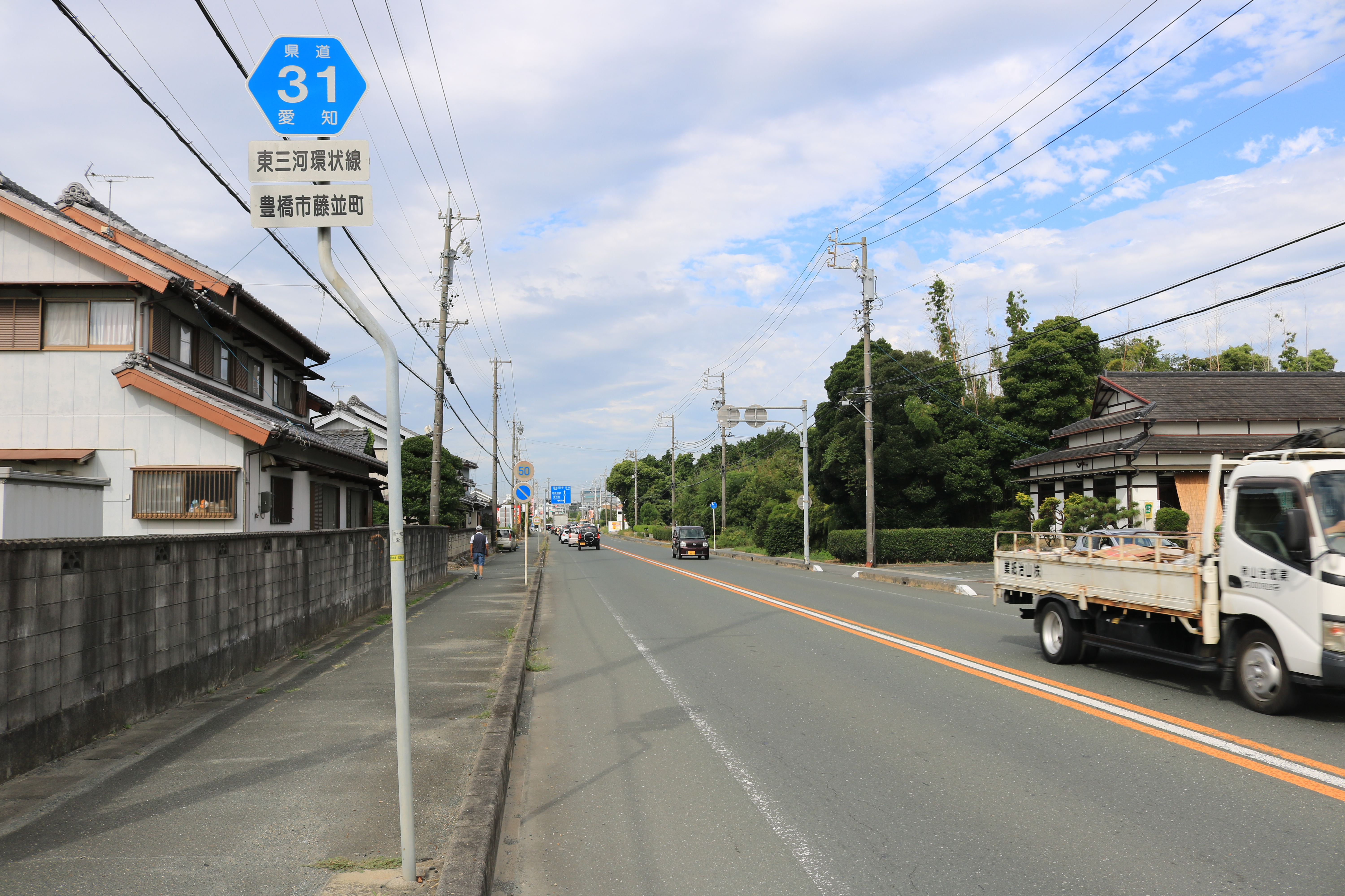 Aichi Prefectural Road Route 31 in Fujinami-cho, Toyohashi, Aichi prefecture, Japan.